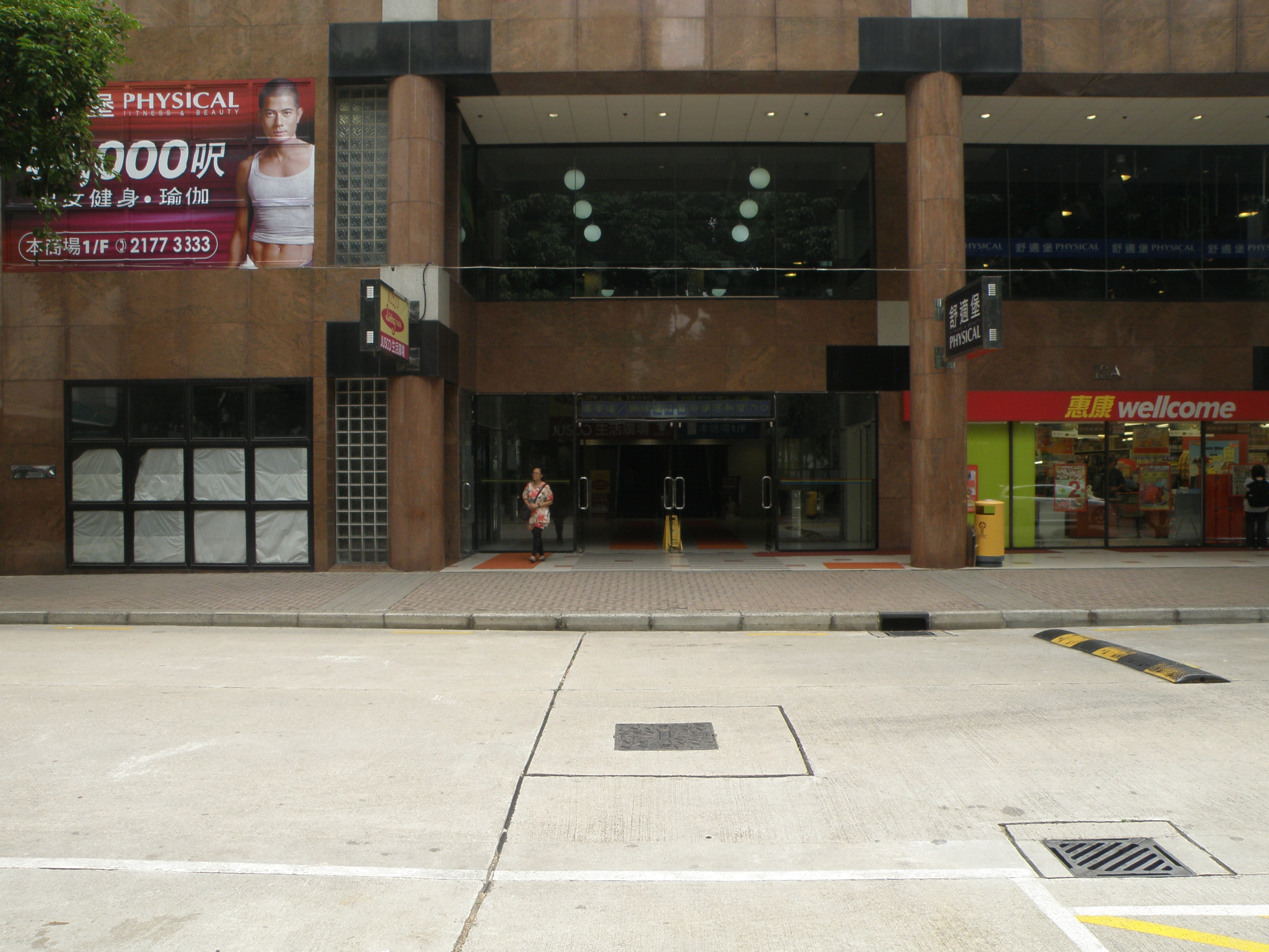 Physical branch in Tuen Mun